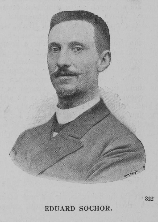 Portrait of Eduard Sochor (1862 - 1947), Czech architect. He was one of the builders of "Czech village" on Czech & Slavonic Ethnographic Exhibition in Prague 1895.